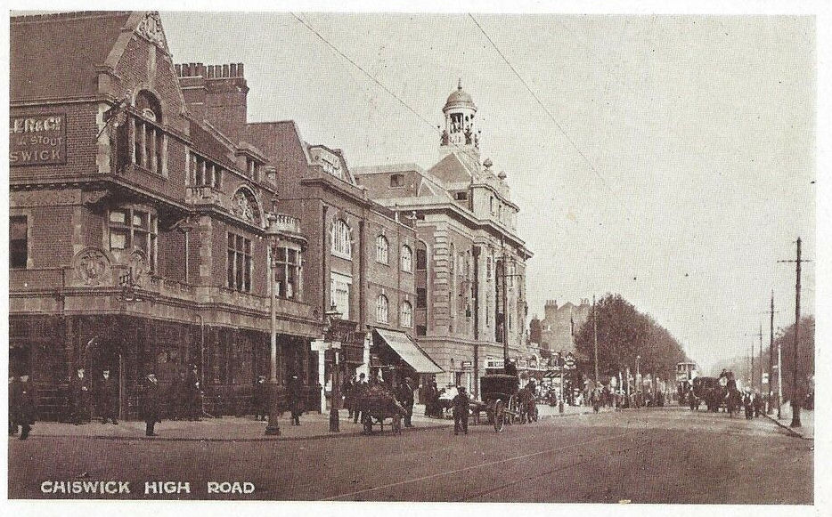 Postcard of the Chiswick Empire on Chiswick High Road